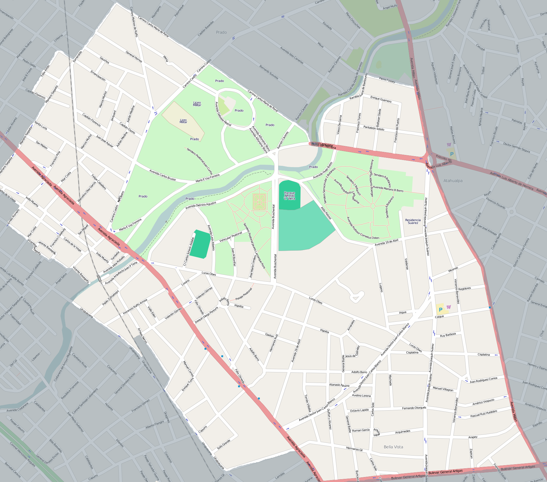 Street map of Prado-Nueva Savona, Montevideo, exported from OpenStreetMap. I added shading to delimit the barrio. This map may be incomplete, and may contain errors. Don't rely solely on it for navigation.